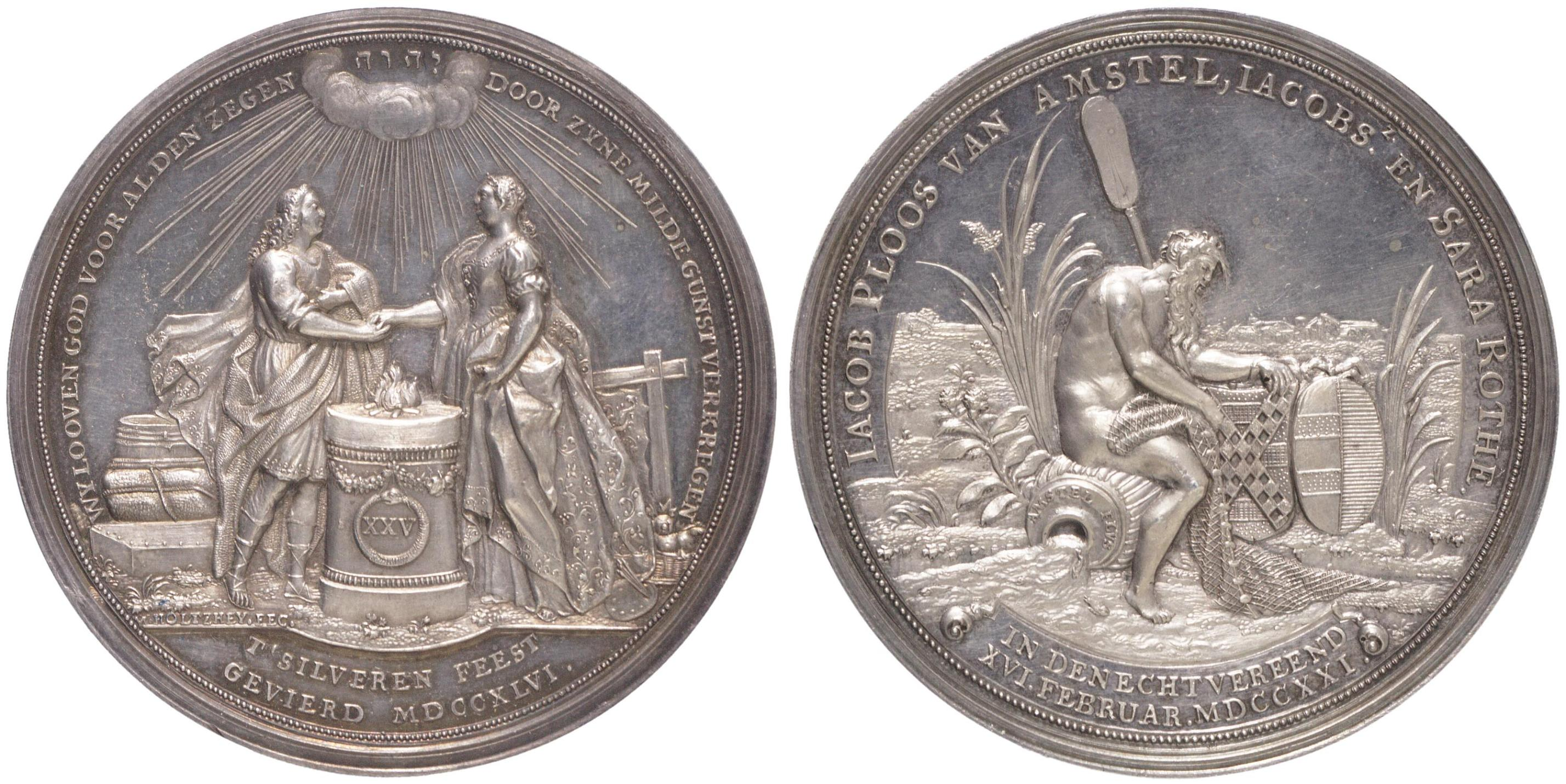 Commemorative medal celebrating 25 years of marriage for the couple Jacob Ploos van Amstel and Sara Rothé of Amsterdam, 1746